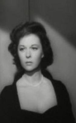 Cropped screenshot of Susan Hayward from the trailer for the film The Lusty Men